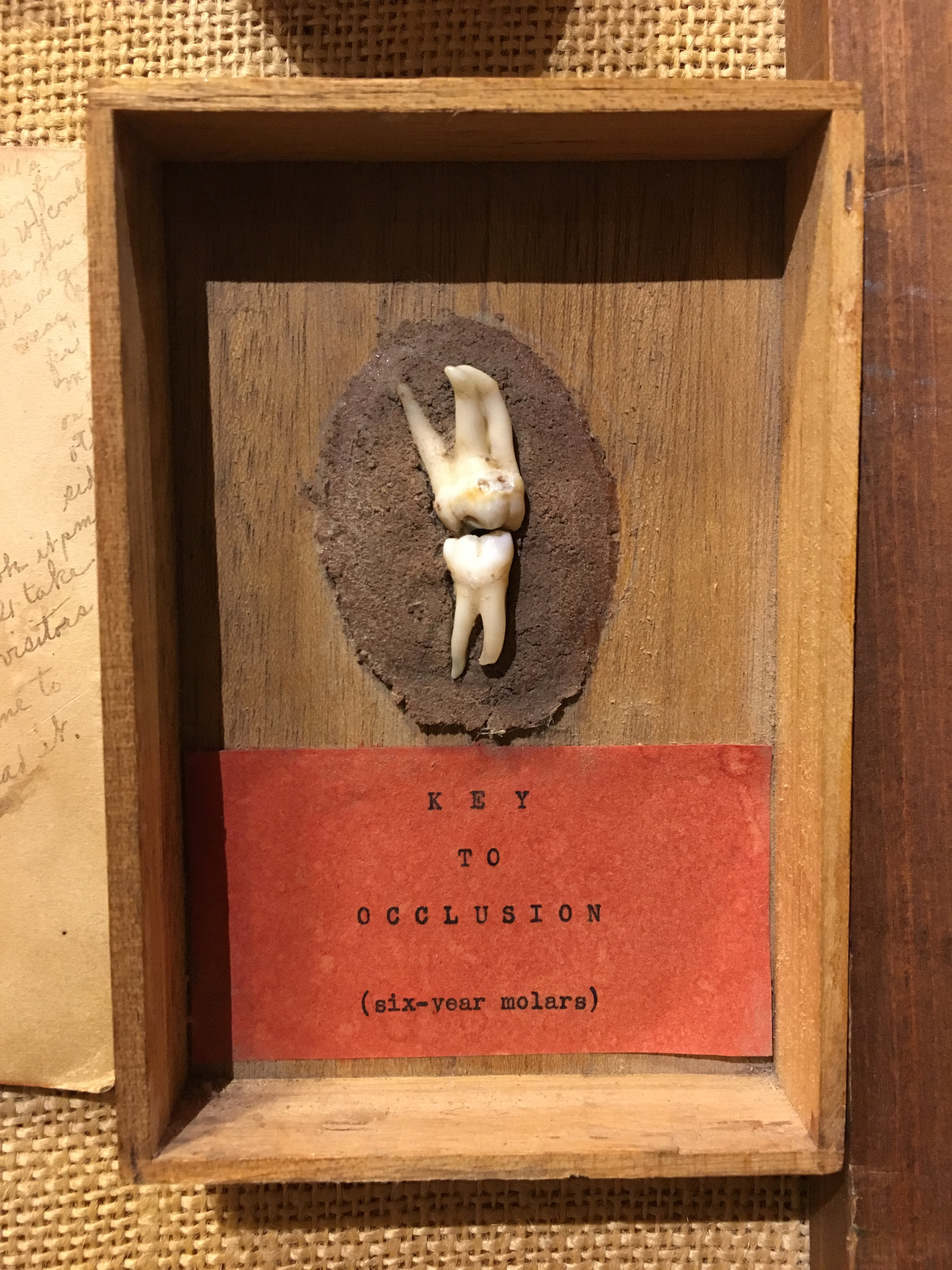 A pair of adult human teeth, upper and lower, framed in a wooden box with label below stating they are "the Key to Occlusion", hung on the wall and in the collection of The Baldpate Inn Key Room.